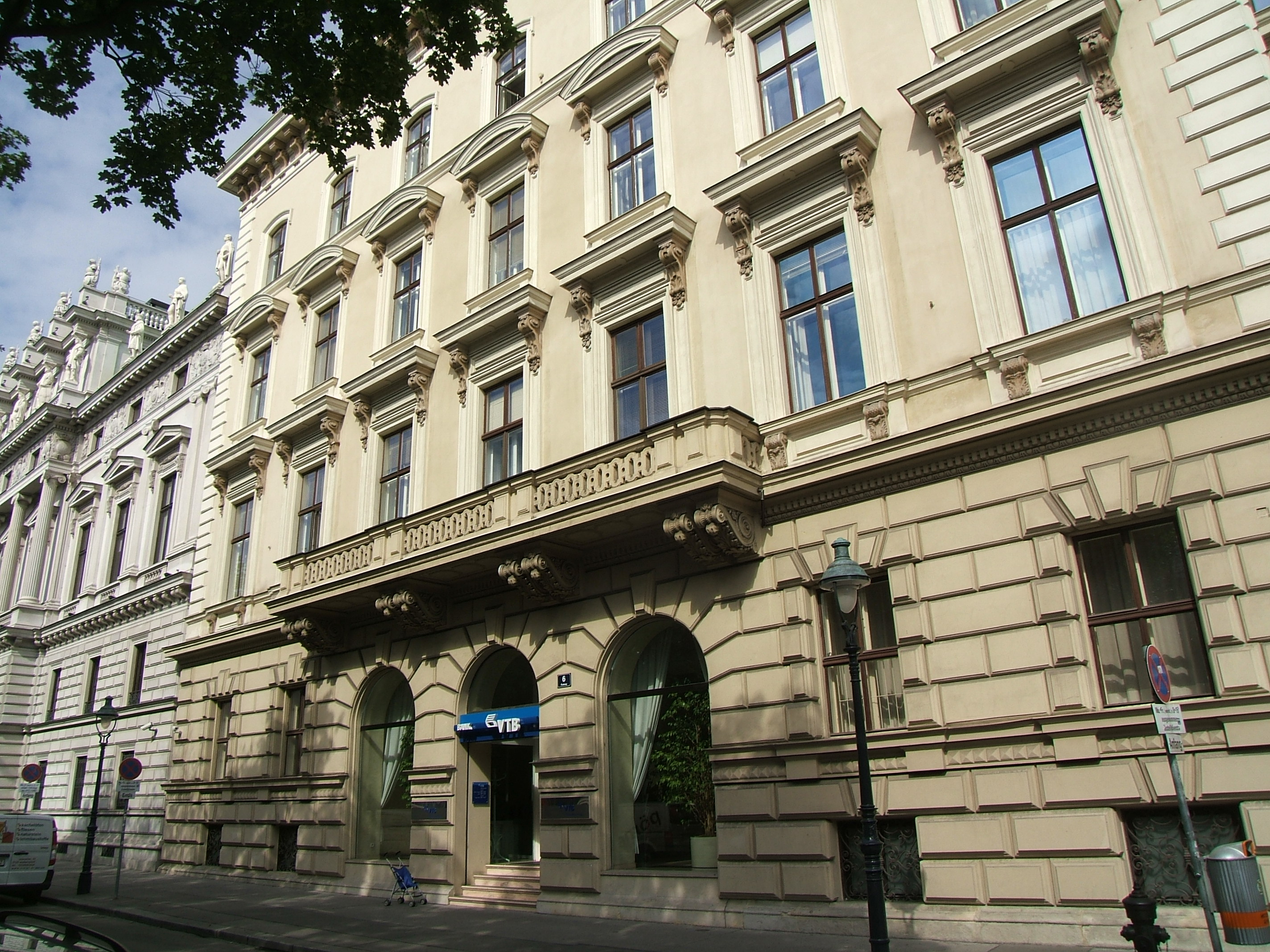 Palais Colloredo-Mansfeld in Vienna, 1st district Parkring 6